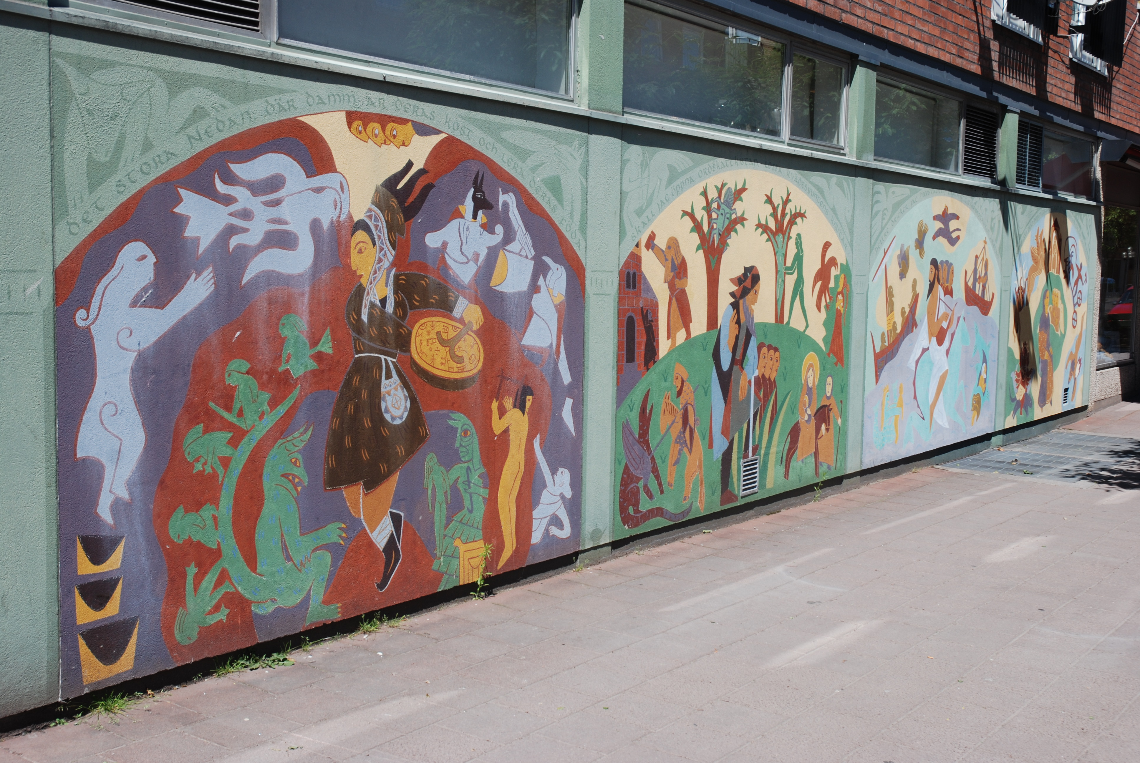 Berättarväggen av Mats Rehnman, 1996, Föreningsgatan i Ljungby